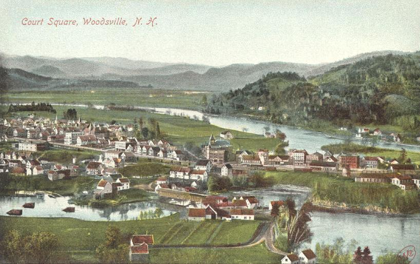 Court Square, Woodsville, New Hampshire